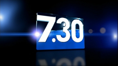 ABC 7.30 title card